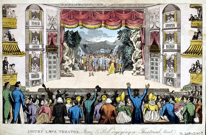 Drury Lane Theatre (one of a series of prints by George and Robert Cruikshank illustrating Pierce Egan's Real Life in London); aquatint print, published by Jones & Co., London, 11 August 1821 Victoria and Albert Museum, London, Museum number: S.209-2008